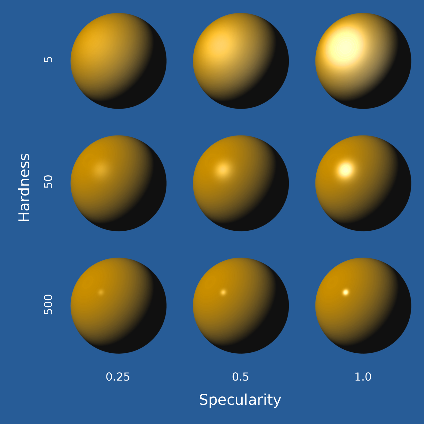 Array of 9 images of a sphere, showing the effect of Specularity on a rendered image (using the phong model). Hardness increases from top to bottom. (The amount of) Specularity increases from left to right.